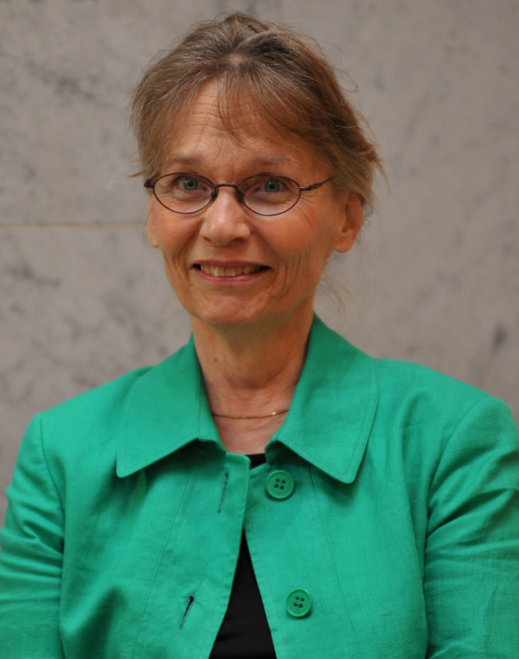 Ulla-Lena Lundberg, Finnish writer, Helsinki, September 2012.